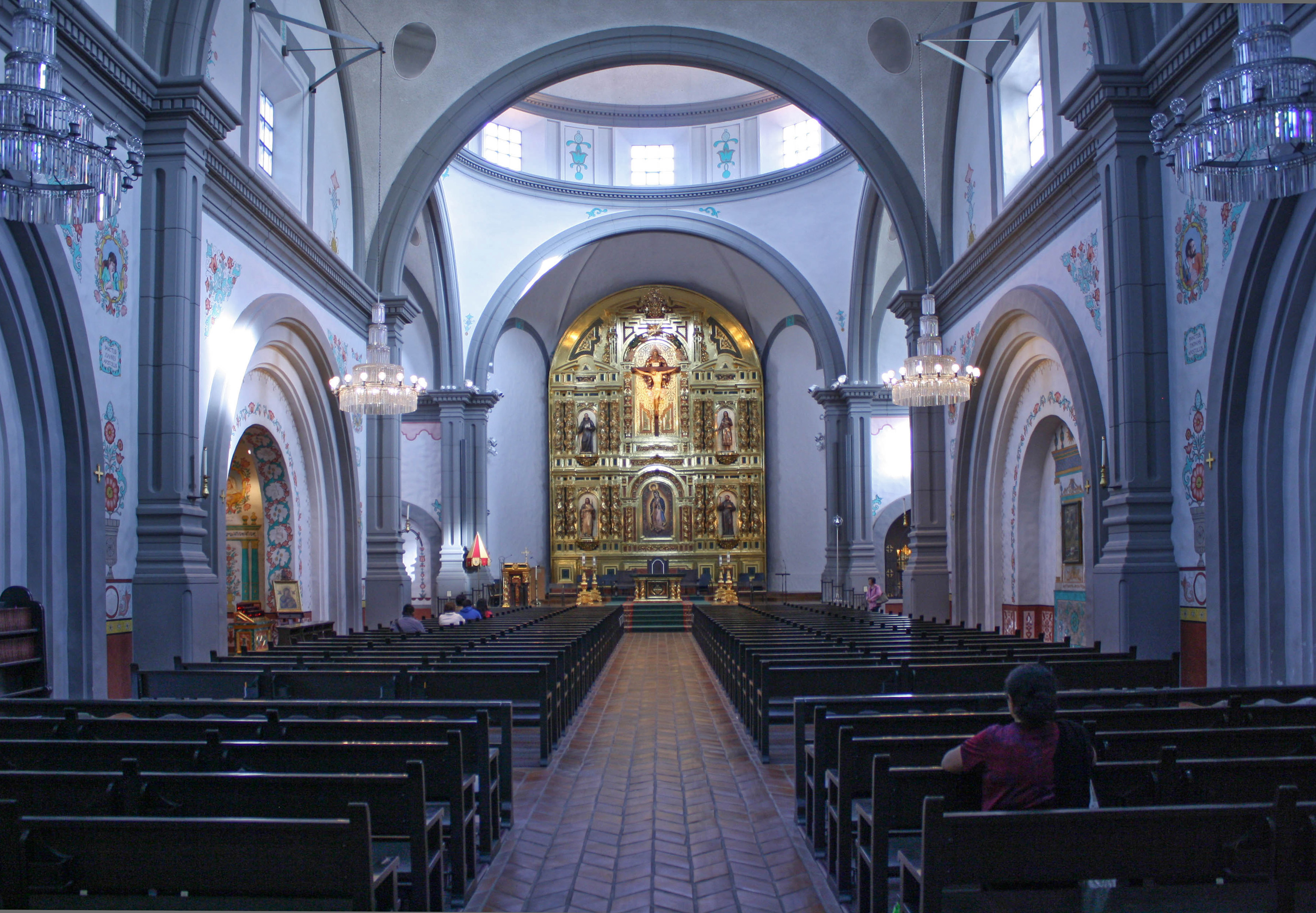 Interior of Mission Basilica San Juan Capistrano, San Juan Capistrano, California